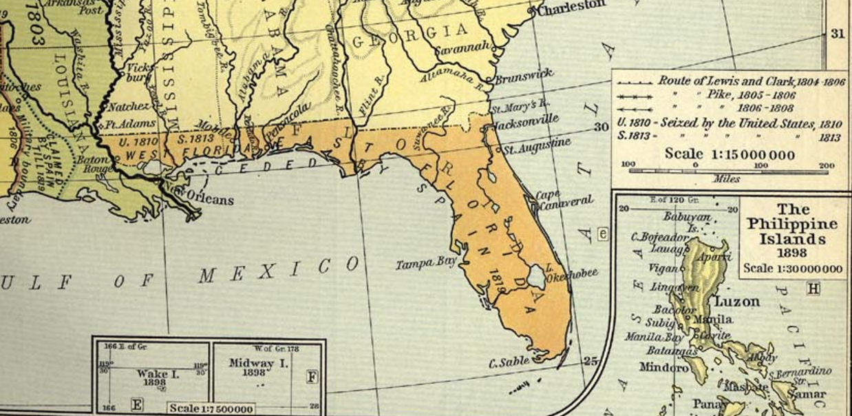 Territorial Expansion of the United States since 1803 - an excerpt of East and West Florida with U.S. seizure noted in legend (from Perry-Castañeda Library Map Collection - The University of Texas at Austin) "Courtesy of the University of Texas Libraries, The University of Texas at Austin."